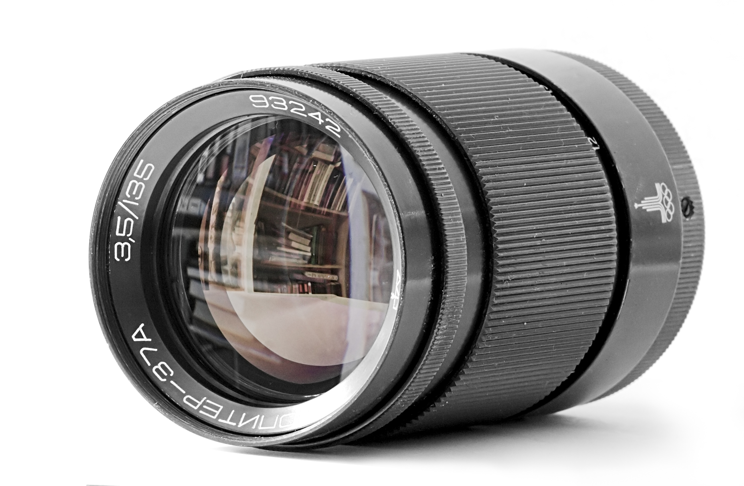 Jupiter-37A